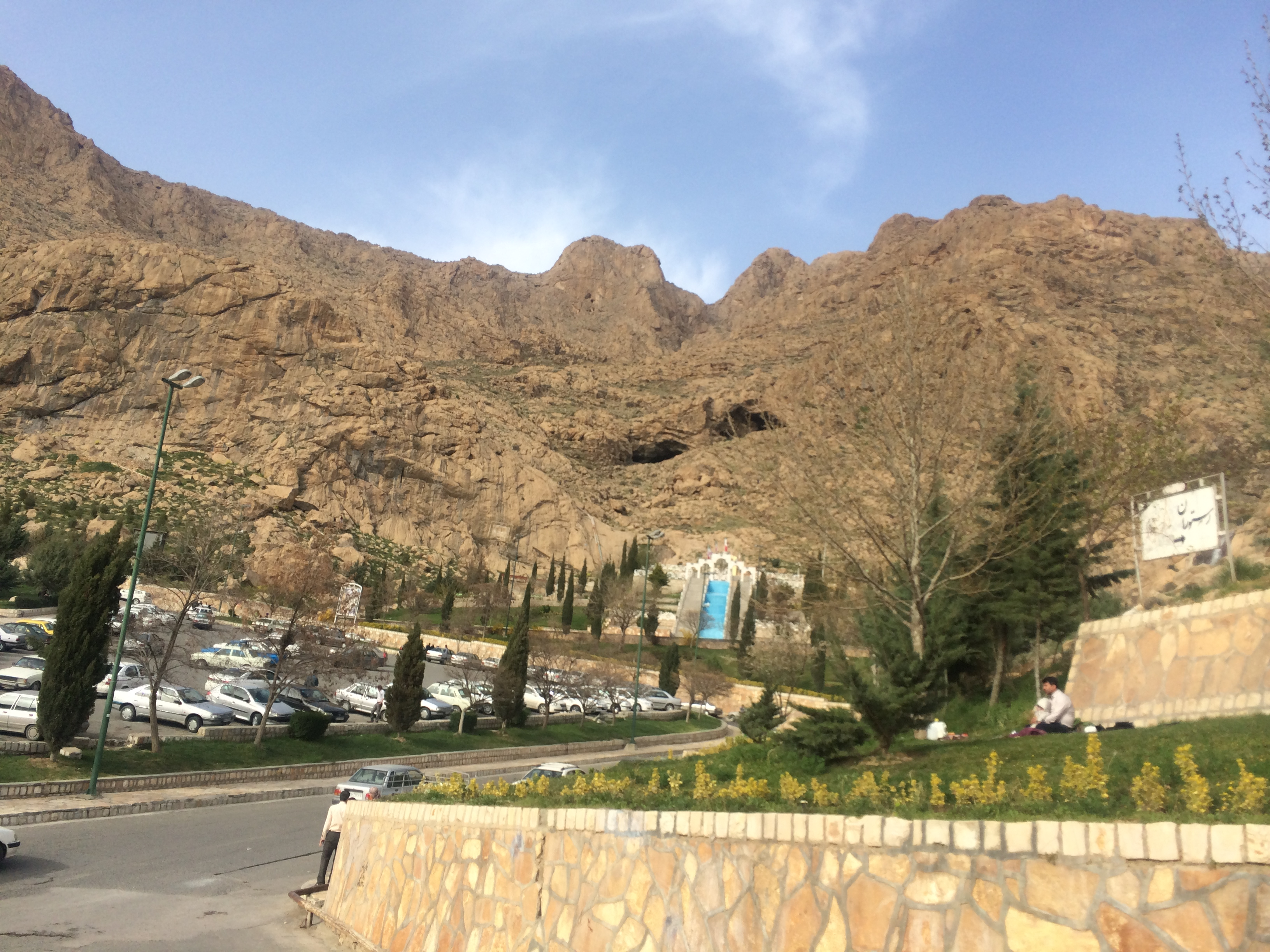 pic from southern front